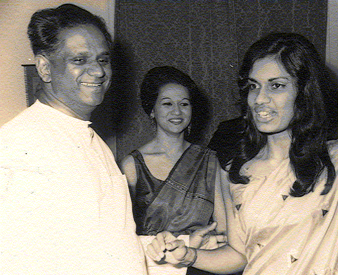 Photo of Tissa Wijeyeratne with Mrs.Chandrika Bandaranaike Kumaratunga (early 1970s in Paris, France). This photo is solely owned by the Wijeyeratne family & have given me the copy rights. If you need any clarification you may contact this address. Copyright holder Name : Anuradha Dullewe Wijeyeratne| Address: 168/ 7, Inner Flower Road, Colombo 7, Sri Lanka.